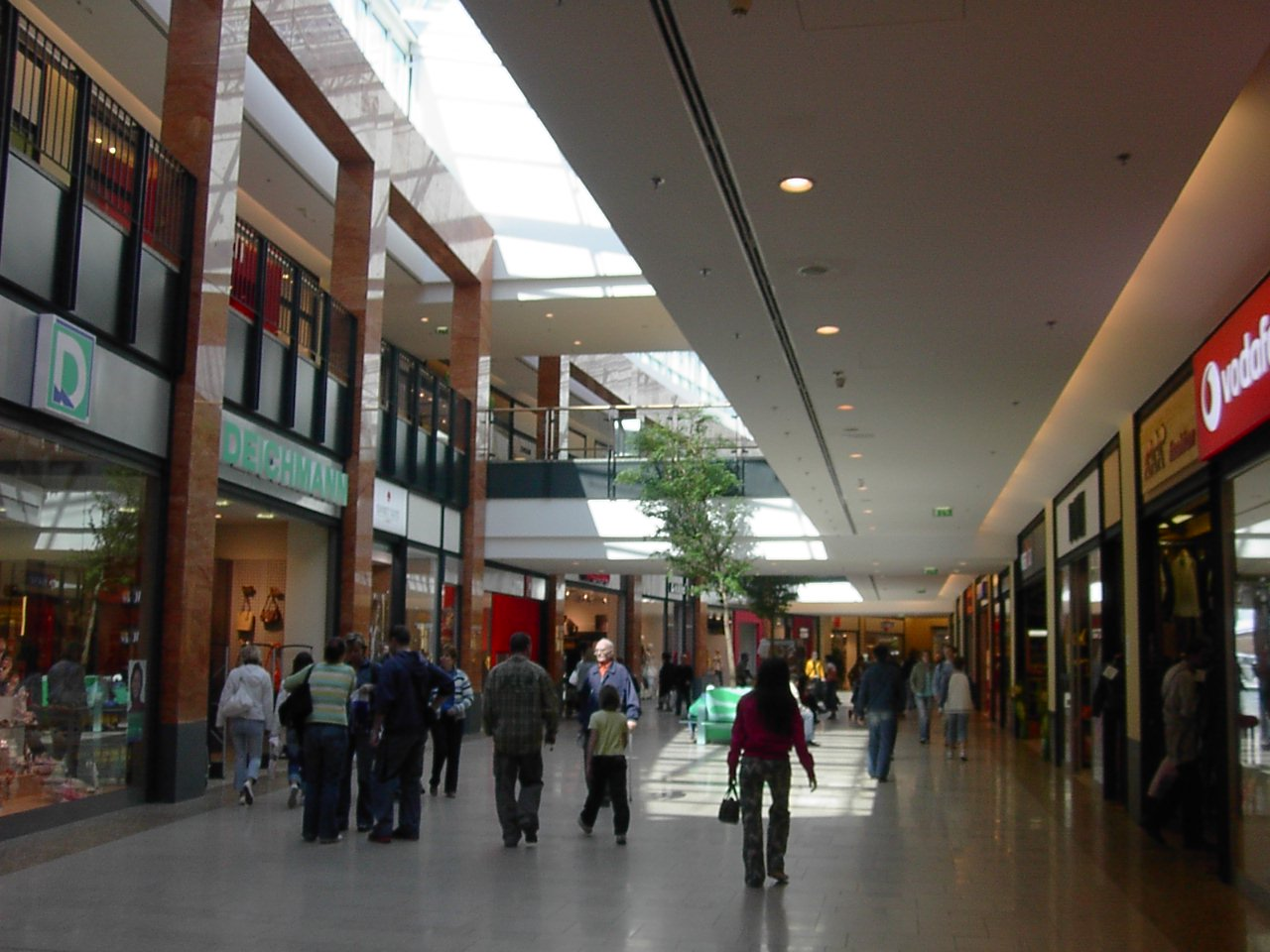 Interior of the shop centre Chodov in Prague, Czech Republic. Interiér Centra Chodov.